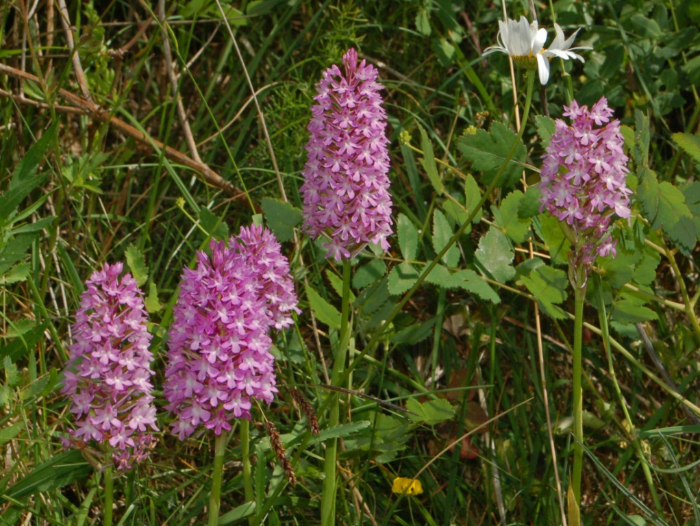 Anacamptis pyramidalis - Genova, Italy